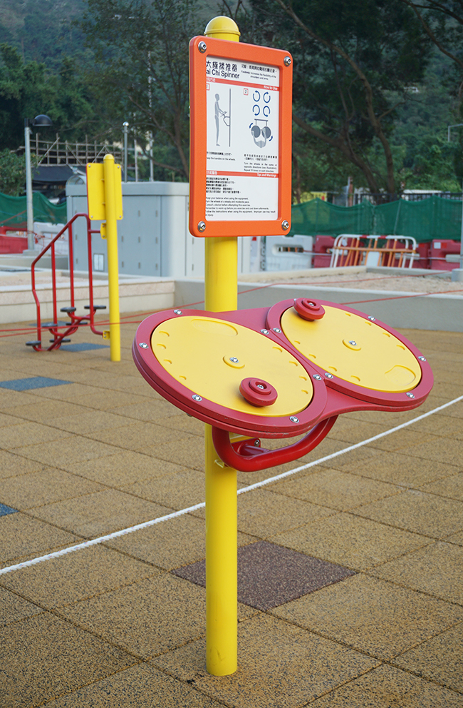 Mun Tung Estate in Tung Chung, Hong Kong.